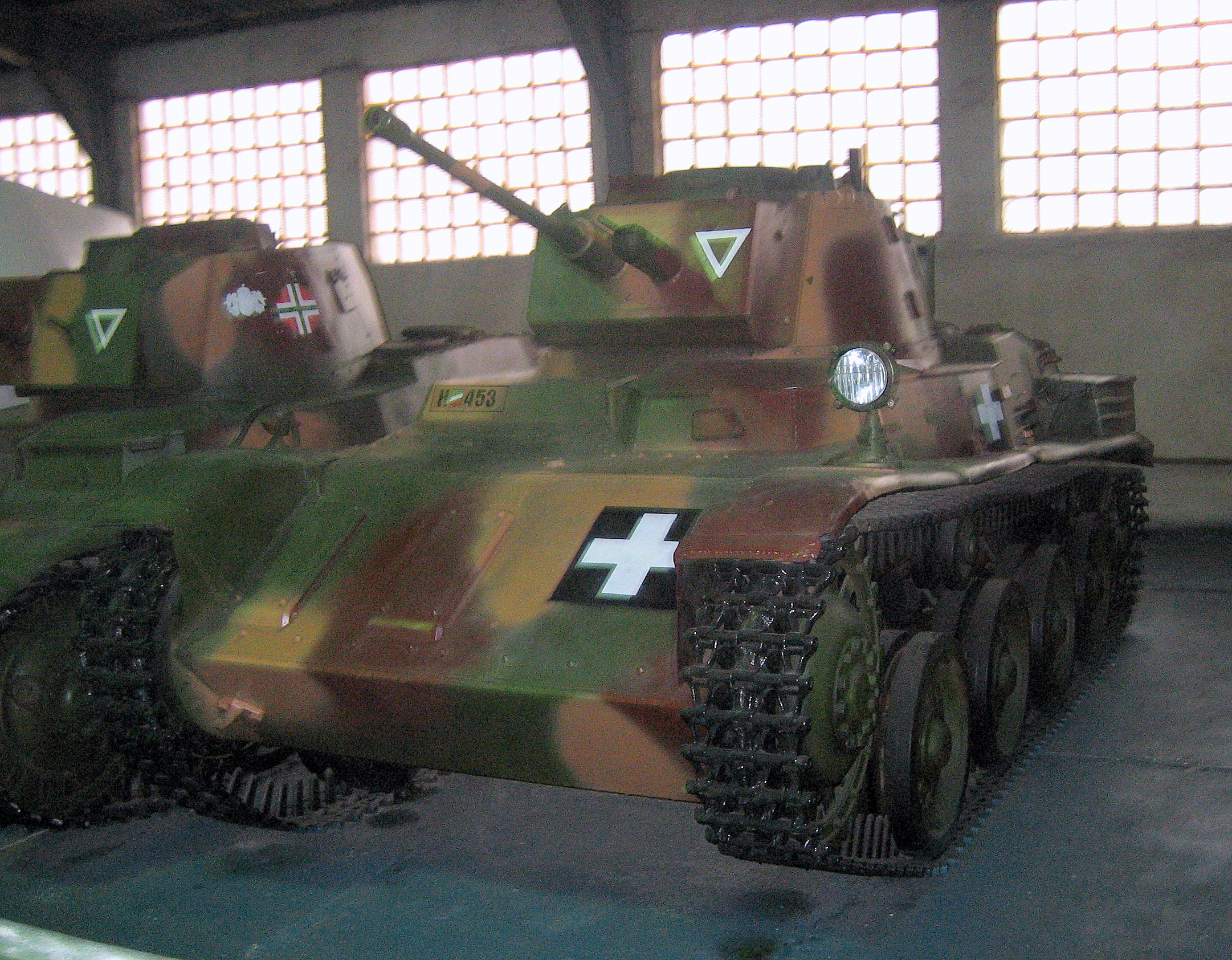 Hungarian Toldi II light tank at Kubinka Tank Museum